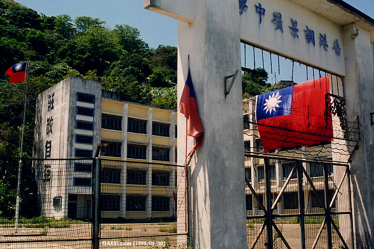 Rennie's Mill Middle School中文（香港）: 香港調景嶺中學。